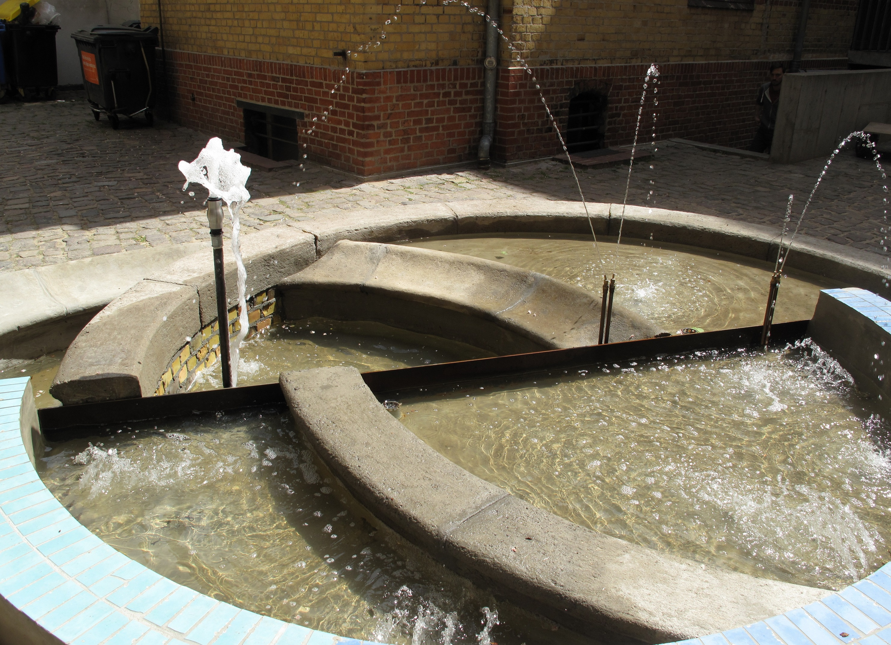 Fontes e sequestros is an art work, created by brazilian installation- and conceptual artist Renata Lucas on the occasion of Berlins Gallery Weekend 2015. It was presented by the gallery neugerriemschneider in the listed building Linienstraße No. 155 in Berlin-Mitte, Germany. The central part of the work, a fountain, is placed in the courtyard of the gallery. In the work Lucas combined the recasted structures of three Berlin-fountains from different architectural epochs into a new historical symbol.